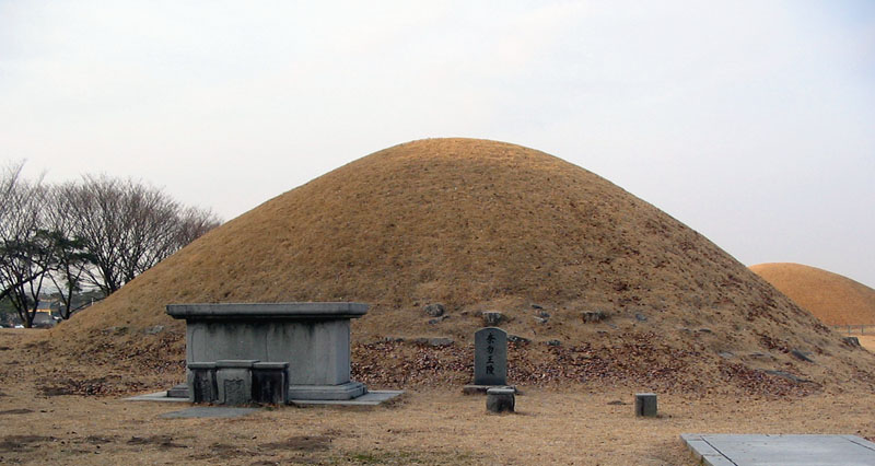 Royal tomb of King Naemul of Silla located in Gyeongju, North Gyeongsang province, South Korea